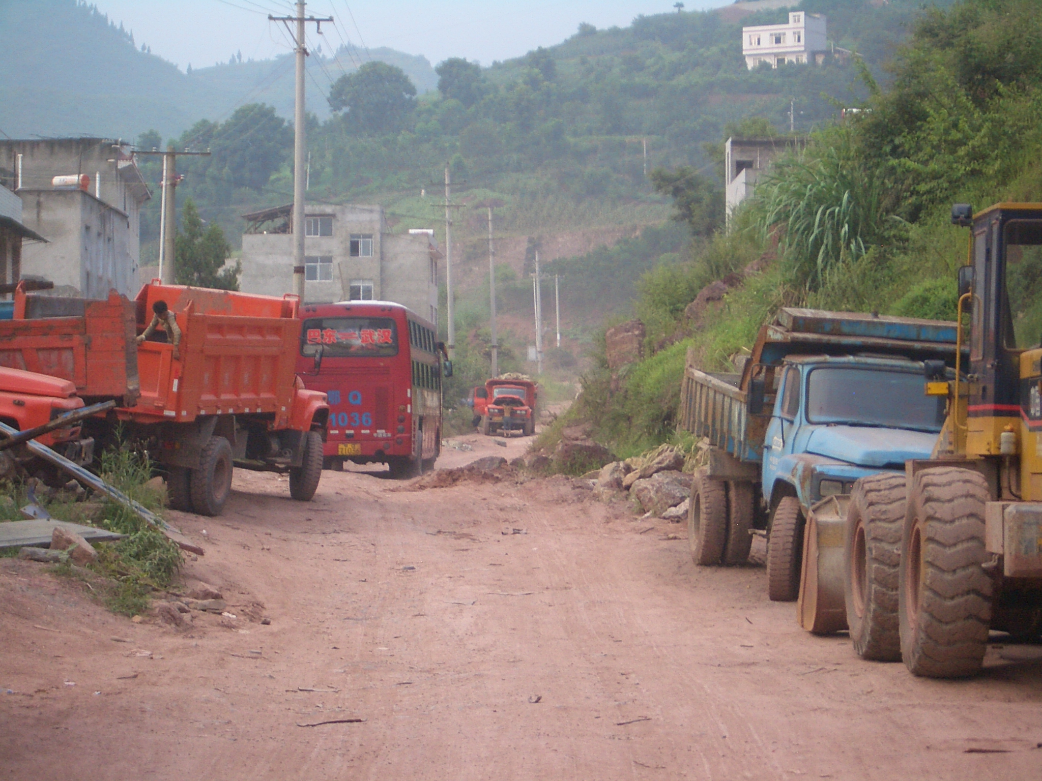 China National Highway G209 on the northern outskirts of Badong. The road is like this for the next 20 km to the north, although road work is conducted in places